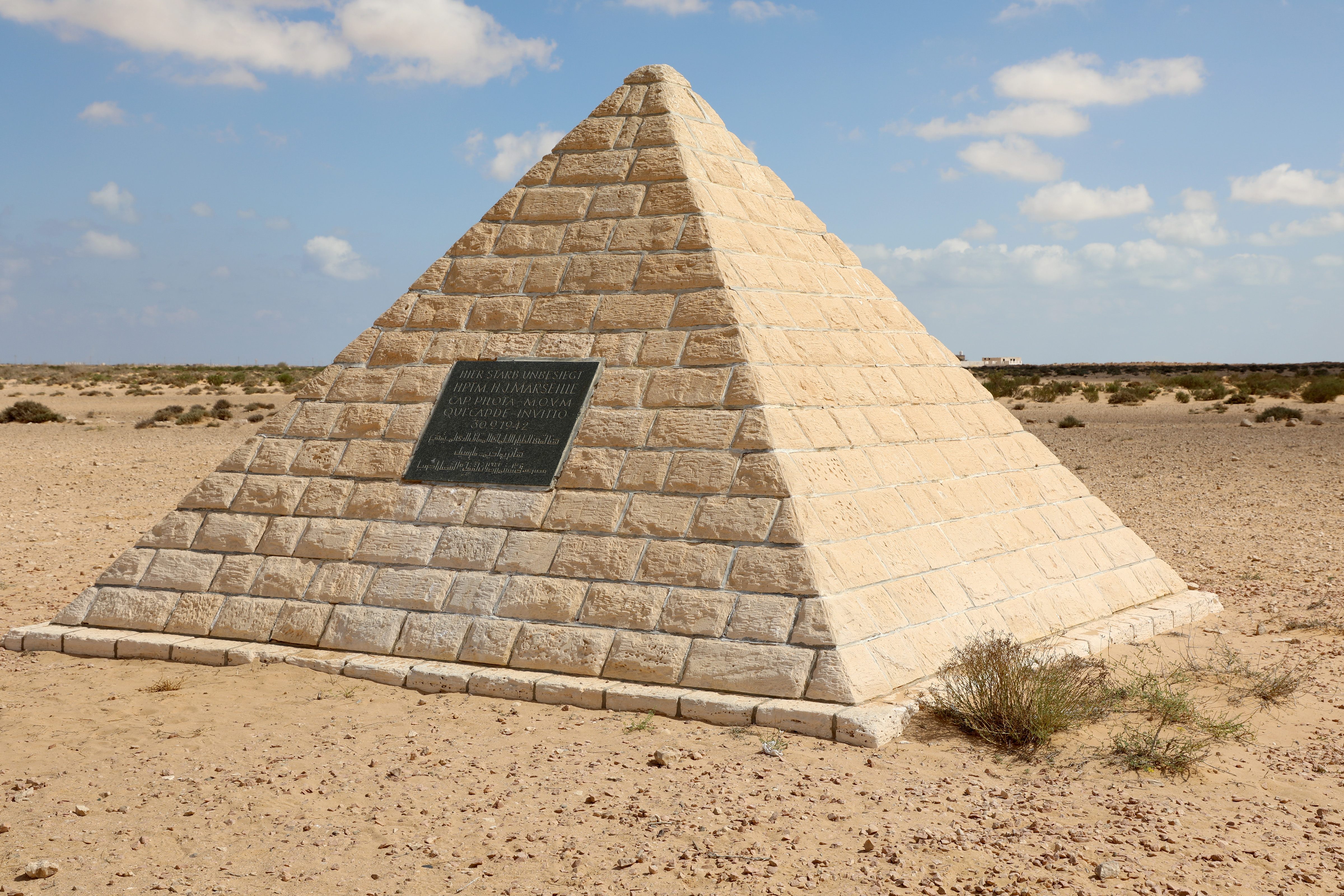 Marseille Pyramid seen from south west, Sidi Abd el-Rahman, Egypt